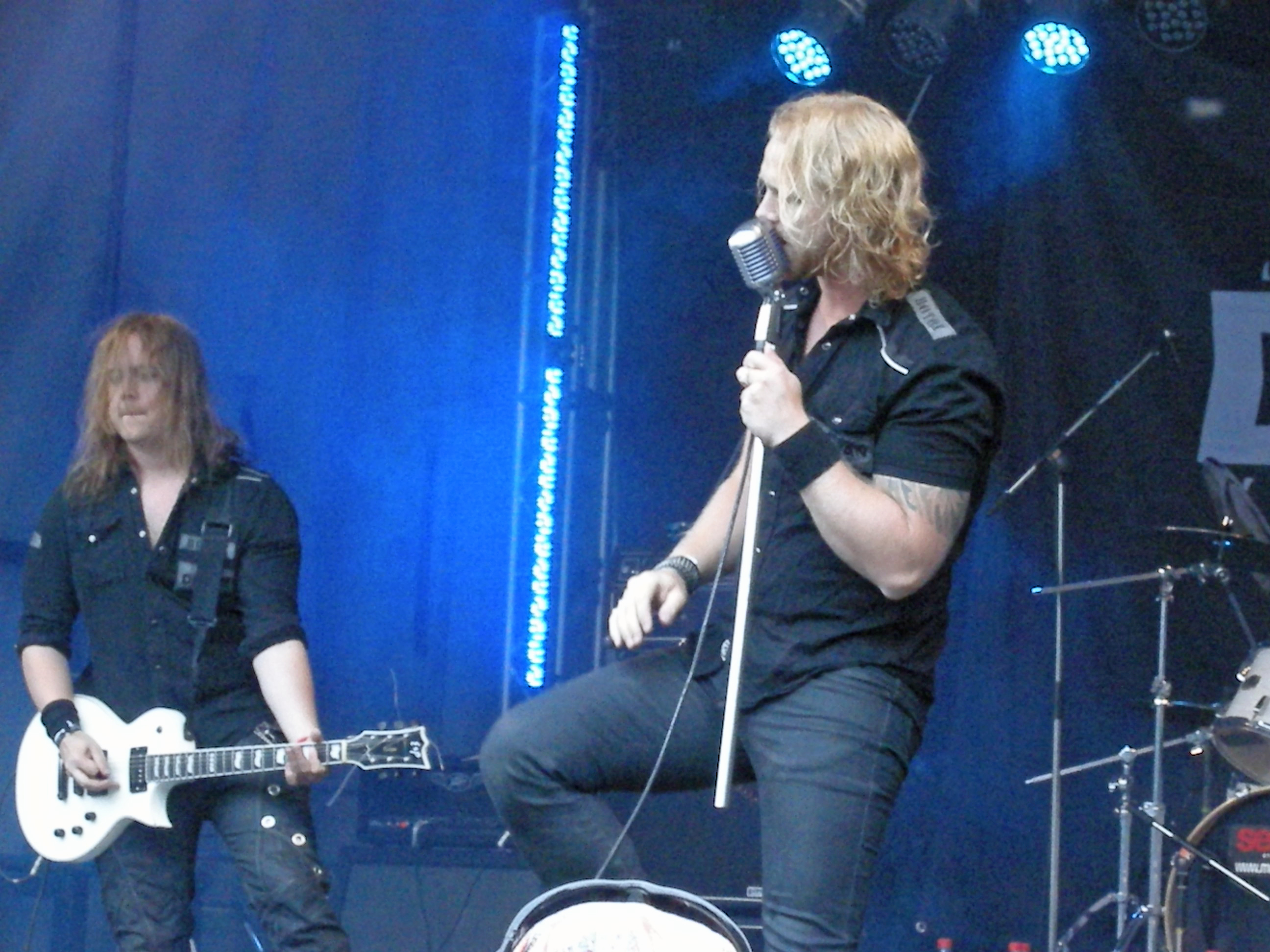 Swedish rock band De Van at Skogsröjet, Rejmyre, Sweden 2012